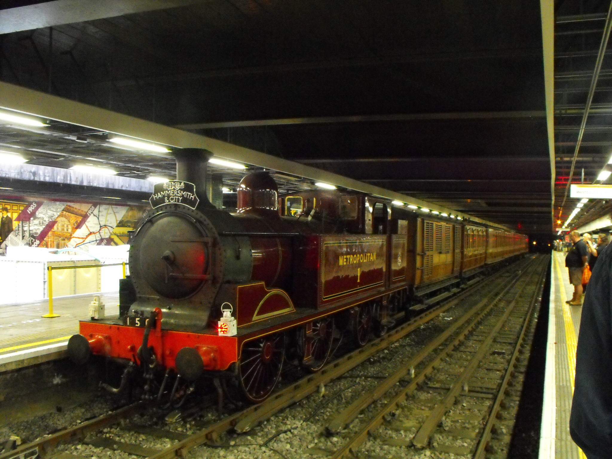 Historic train at Moorgate Underground Station